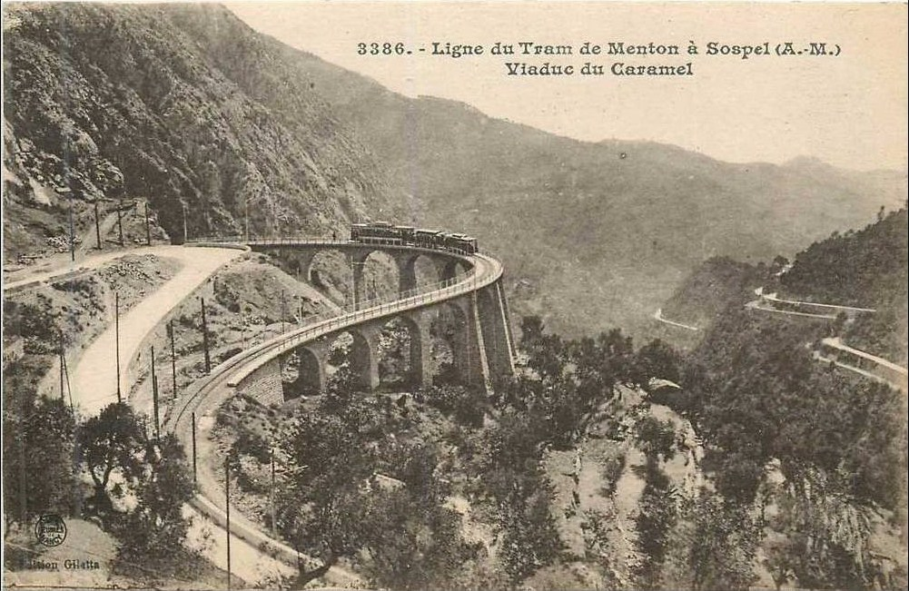 The viaduc du Caramel (U shaped) of the former tramway line between Menton à Sospel (Alpes-Maritimes, France).